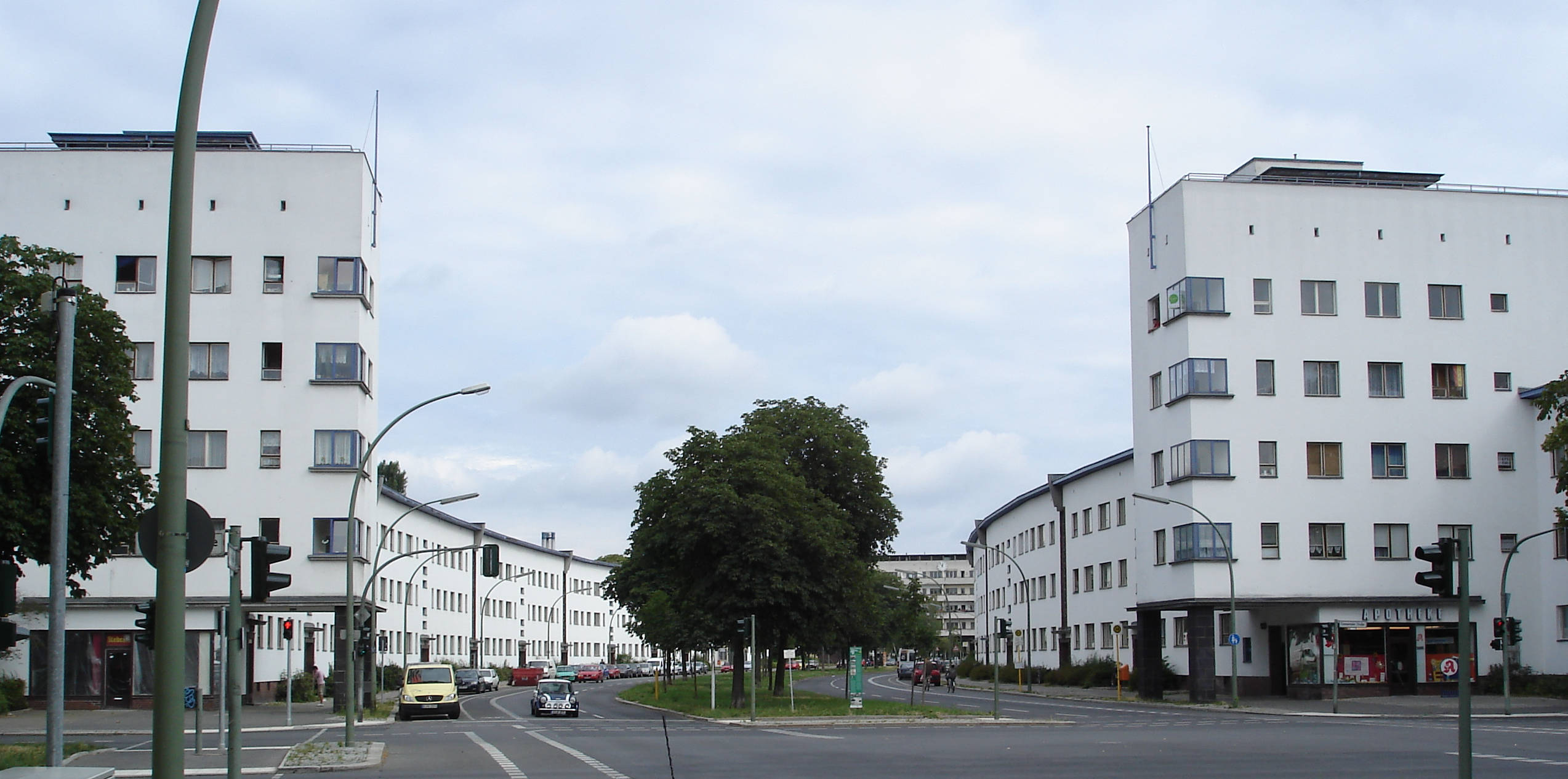 "Weiße Stadt" Housing Estate in Berlin-Reinickendorf; view along Aroser Allee to the north from the crossing Gotthardstraße/Emmentaler Straße with Aroser Allee